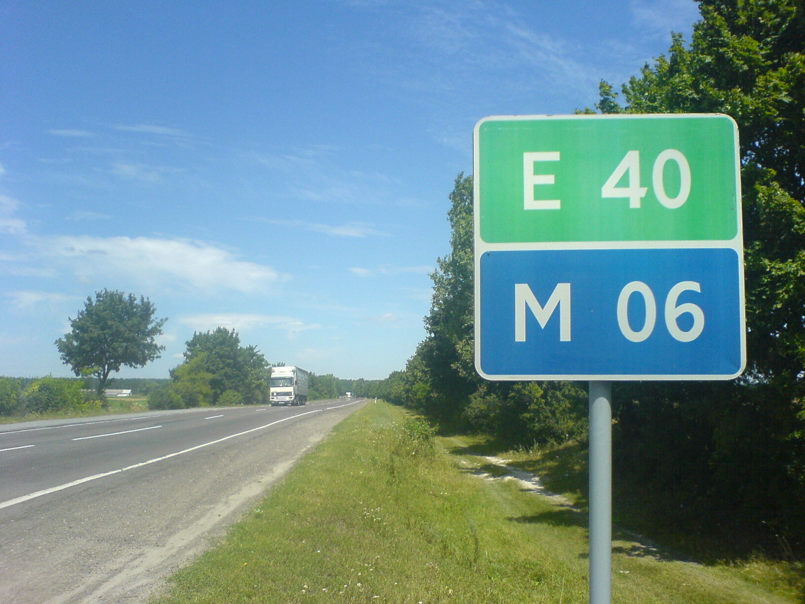 E40 Road Sign